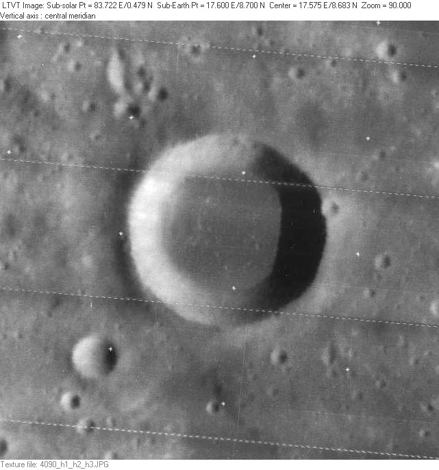 Moon crater Sosigenes. Detail from Lunar Orbiter IV-090H. High resolution scans from the USGS Lunar Orbiter Digitization Project remapped to a north-up aerial view by LTVT.